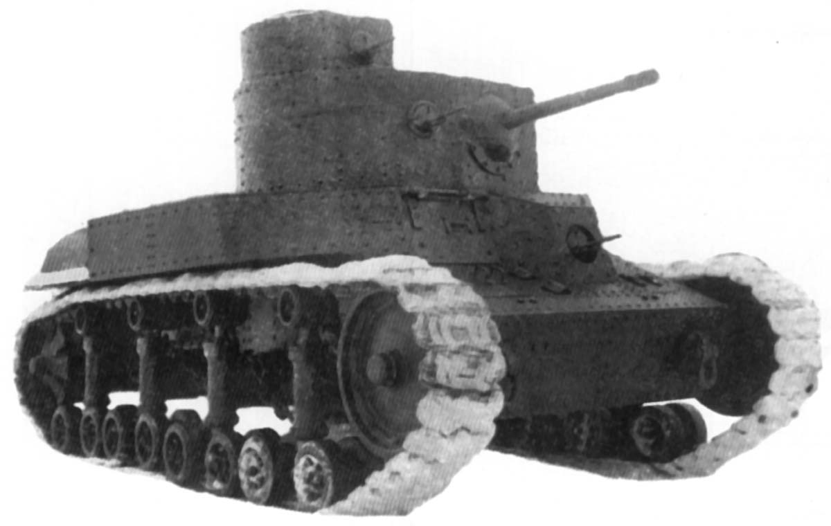 T-24 Medium Tank of 1931, built at the KhPZ factory in Kharkiv, Ukraine